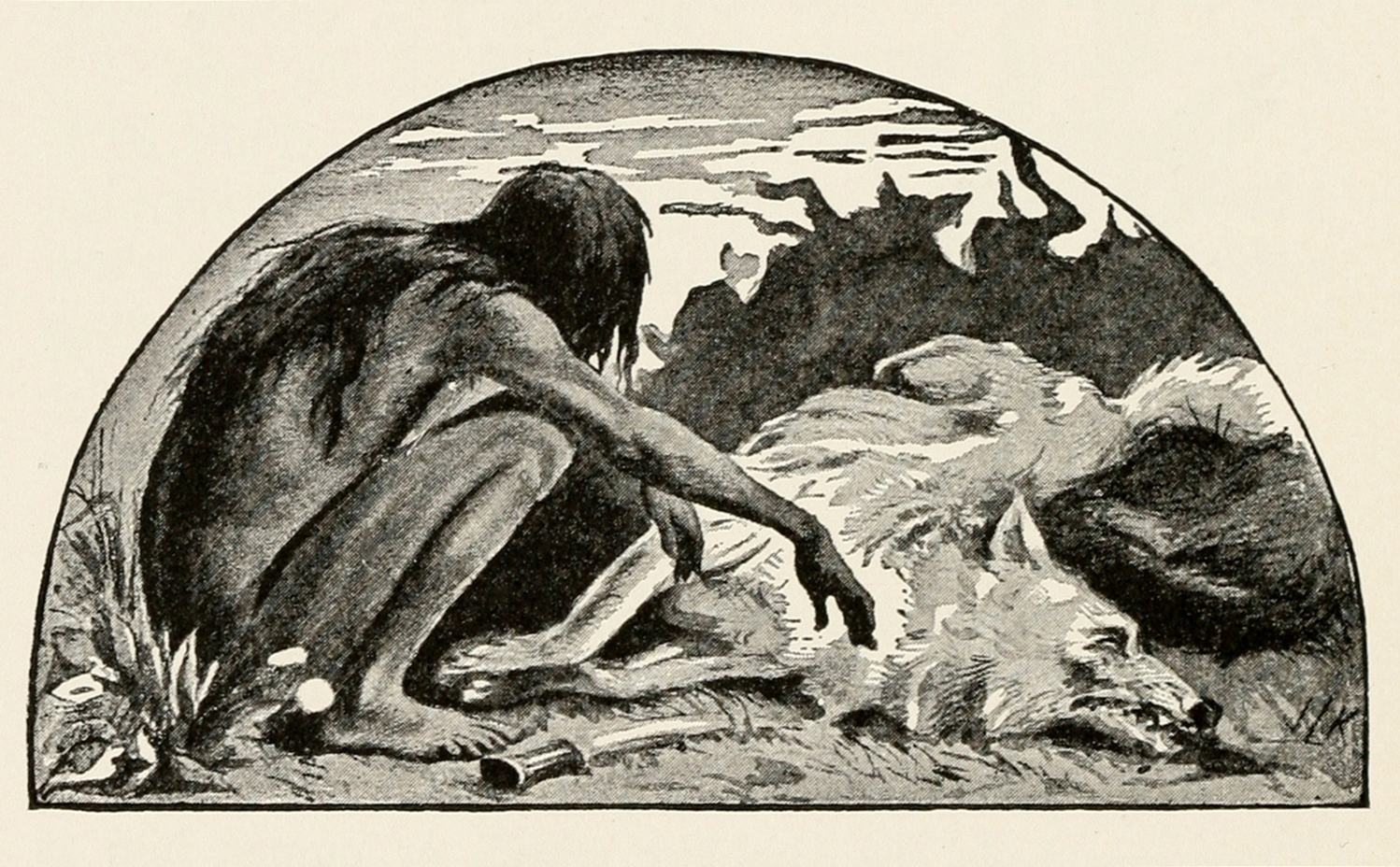 Illustration of Mowgli mourning a dead Akela.